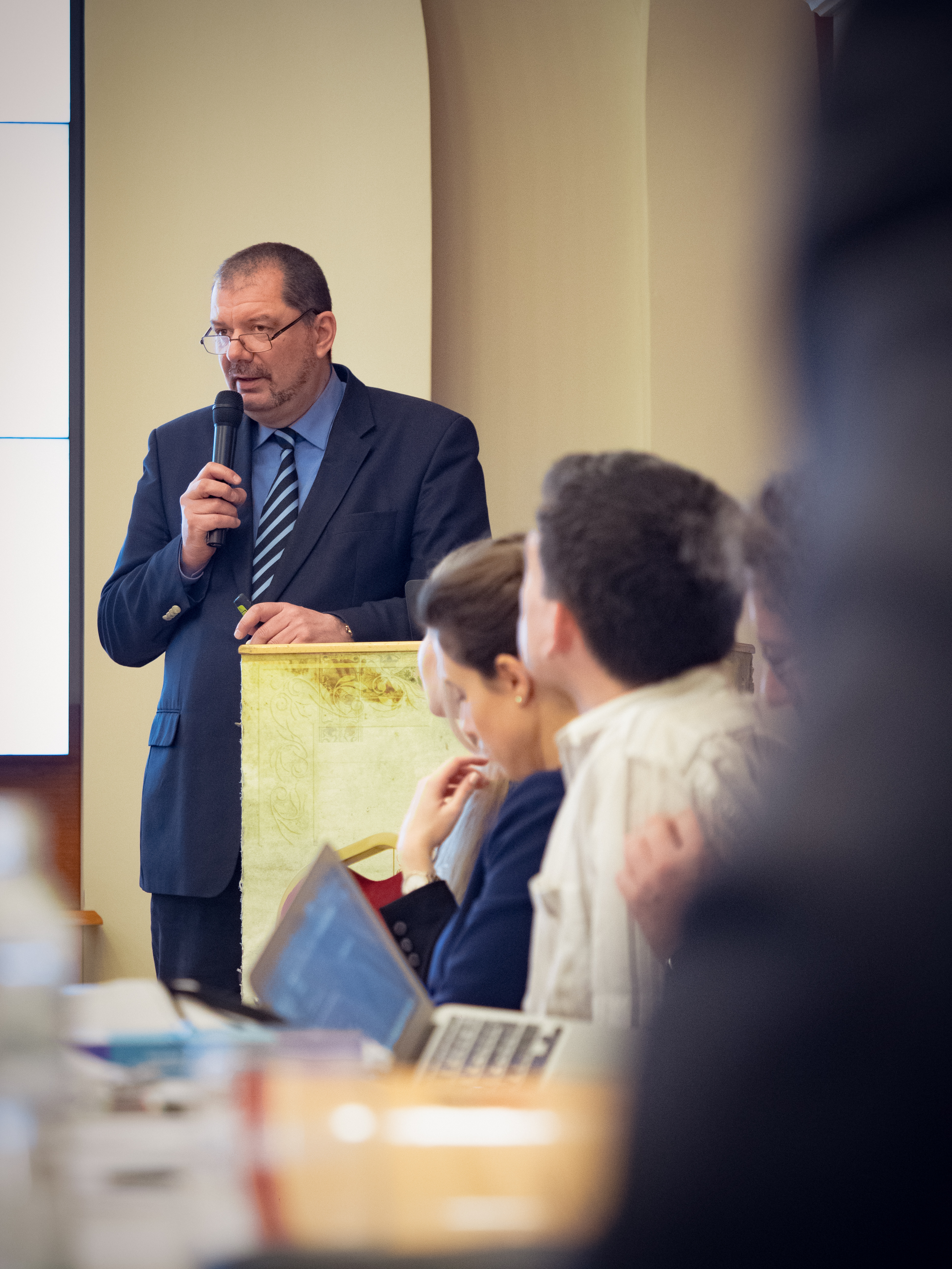 Senior Researcher at the Research Center, Prof. Dr. Zoltán Szántó, Oszkár. International workshop, 28th of February 2019, Budapest